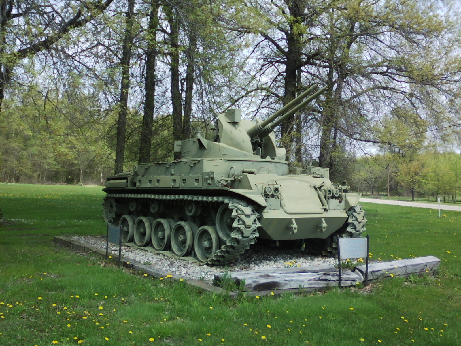 M42 DUSTER (RIGHT FRONT VIEW) AT AMERICAN LEGION POST 713, DEERFIELD, OH ON 12MAY11